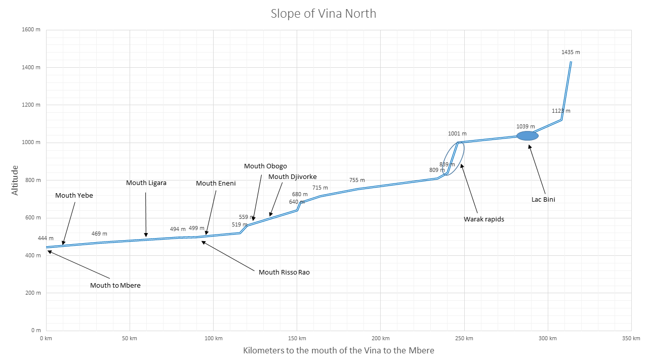 Slope of Vina North; Data source * J. C. Olivry, Fleuves et rivières du Cameroun, collection « Monographies hydrologiques », no 9, ORSTOM, Paris, 1986